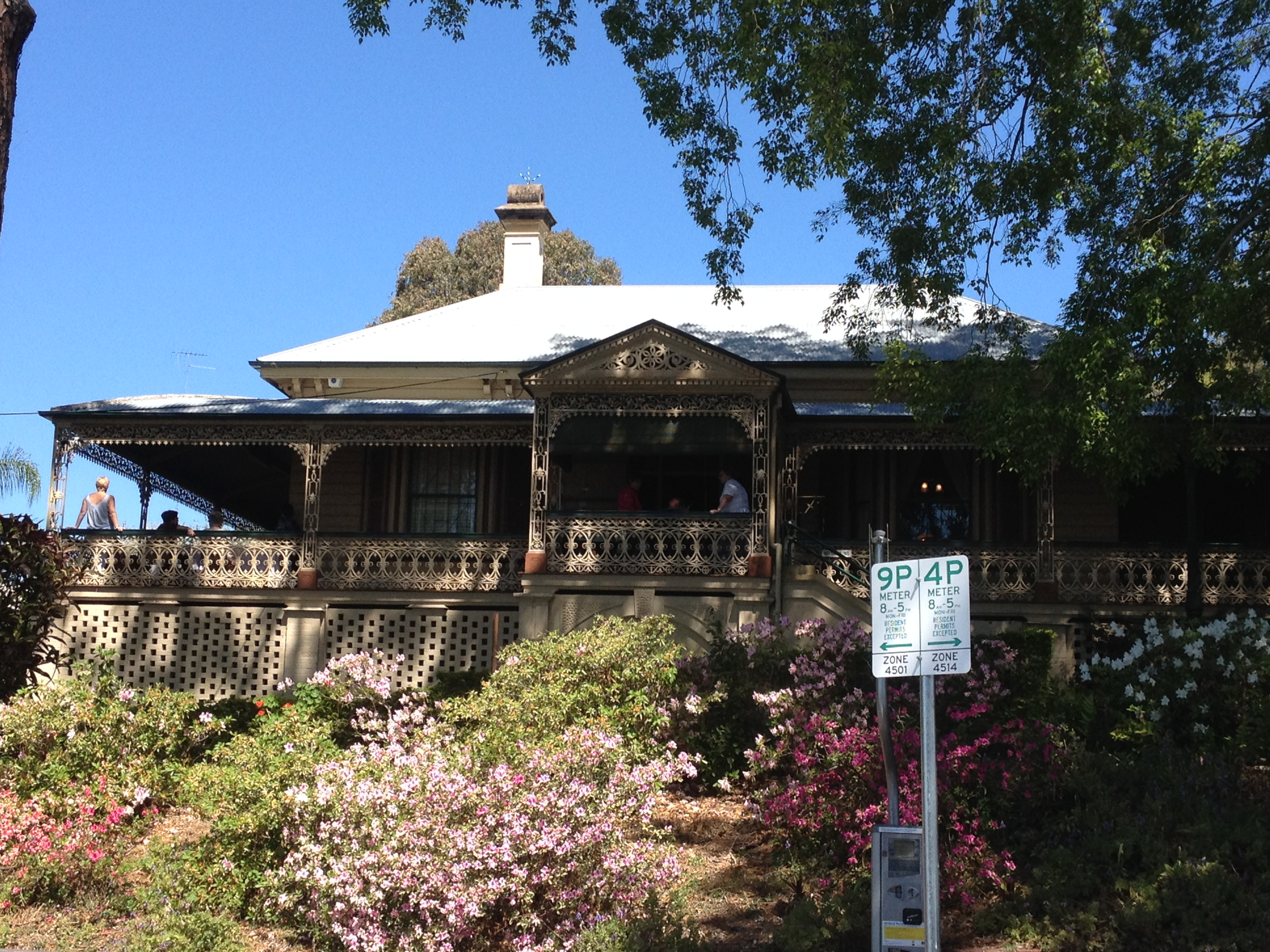 Miegunyah House in Bowen Hills, Queensland; seen from Jordan Tce, Bowen Hills